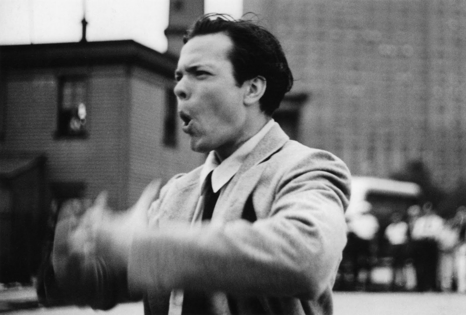 Photograph of director Orson Welles during the shooting of film sequences for the Mercury Theatre production Too Much JohnsonFeature story is titled "Metro-Goldwyn-Mercury" (no author credit)